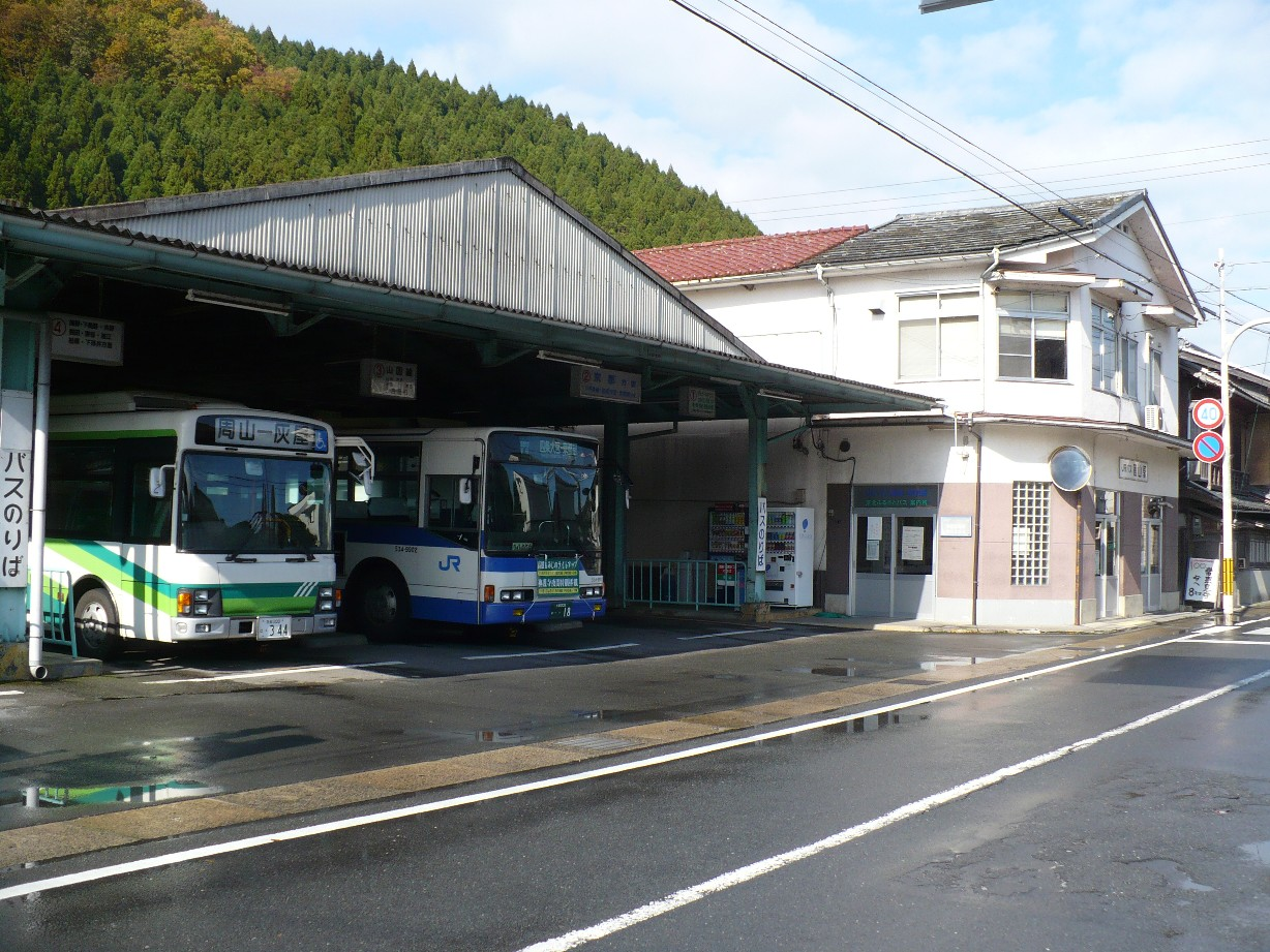 JR west bus Shuzan bus station, Ukyo, Kyoto, Japan.